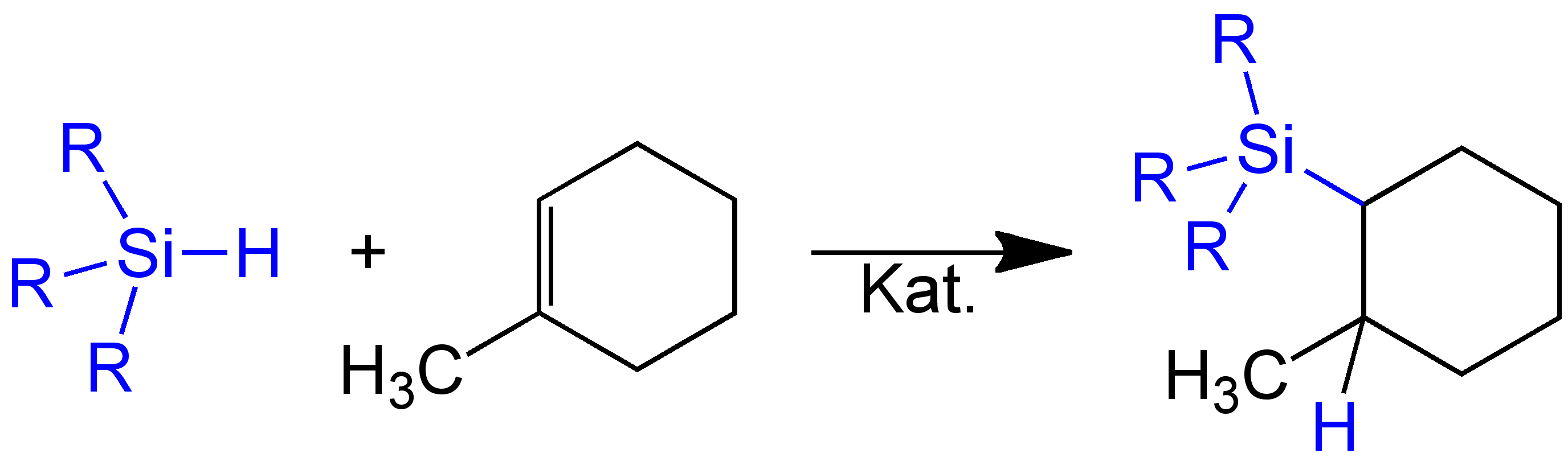 Hydrosilylation